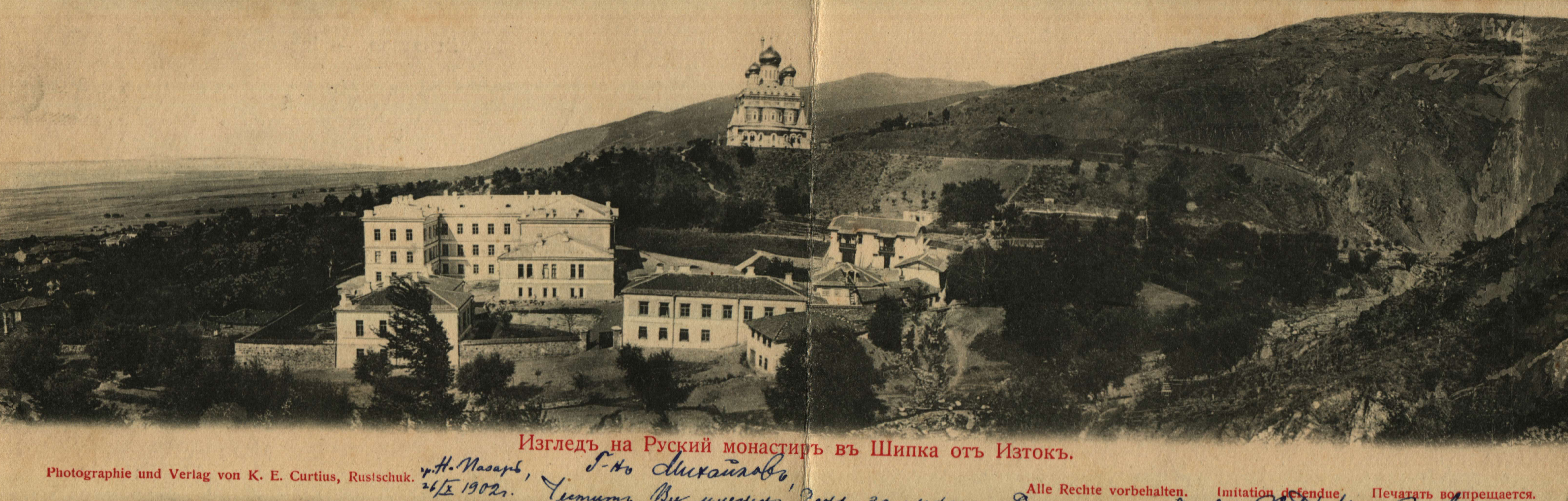 Shipka Memorial Church